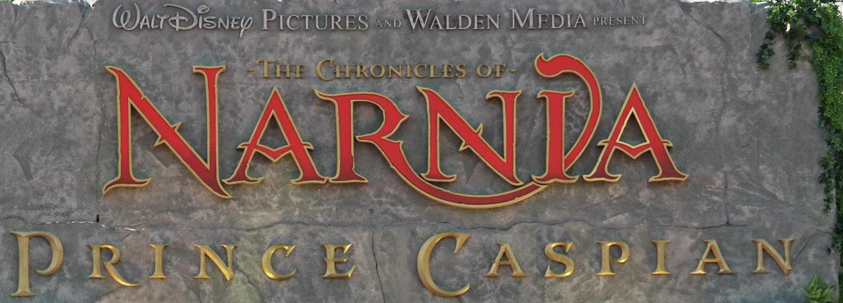 Entrance of Prince Caspian's festival.